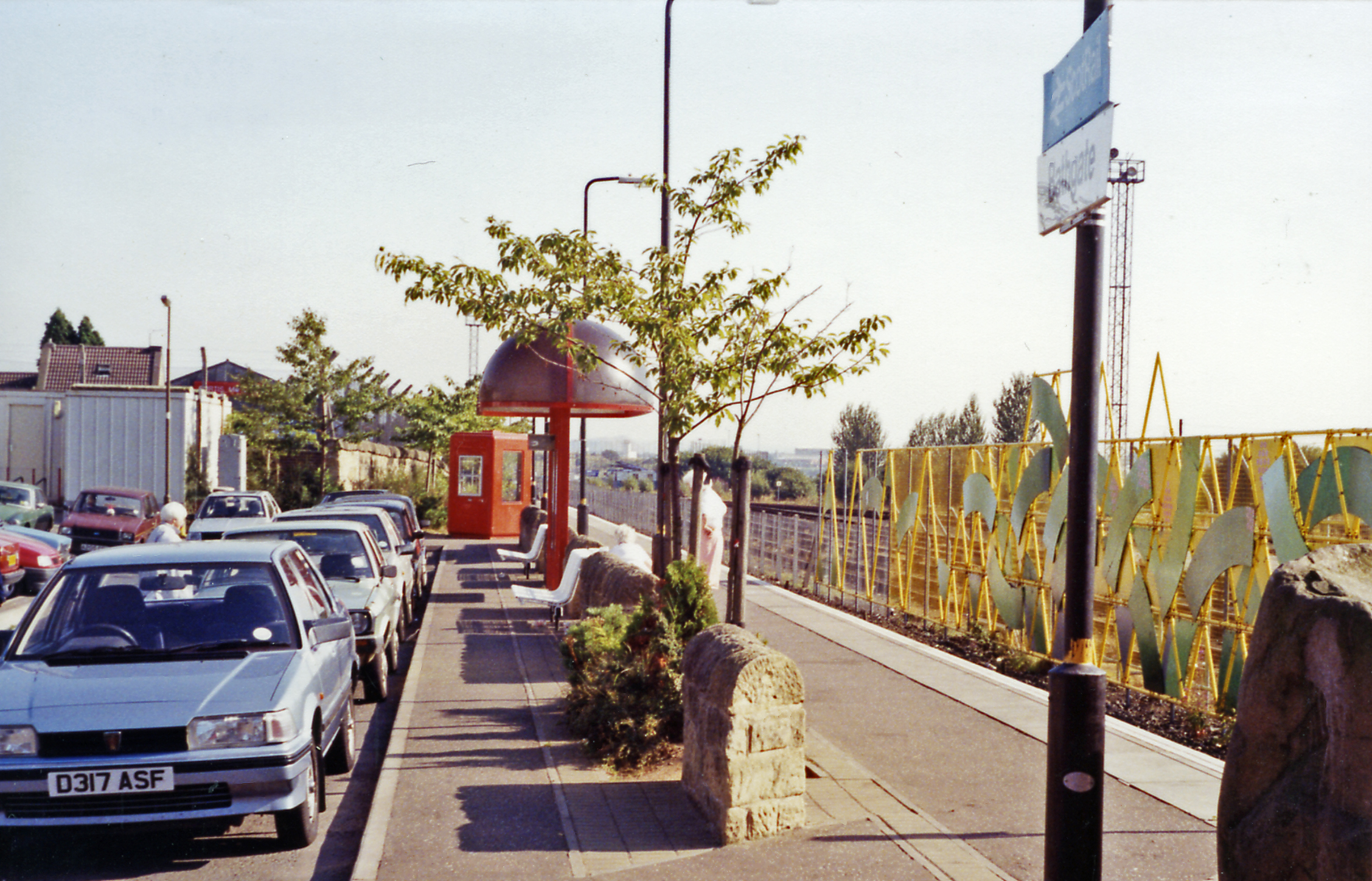 Bathgate (1986) station. View SE, towards Edinburgh. This single-platform station was opened on 24/3/86 on the site of the former Bathgate Upper station on the ex-NB Edinburgh - Bathgate - Airdrie - Glasgow line, which closed along with the route between Ratho (Bathgate Junction) and Airdrie from 9/1/56 but was restored (Edinburgh - Bathgate) in March 1986. On 18/10/10 this station was replaced a short distance away when the rest (Bathgate - Drumgelloch - Airdrie) of the former route was restored as a modern electrified railway.